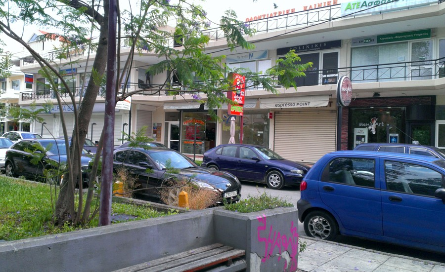 yphresies